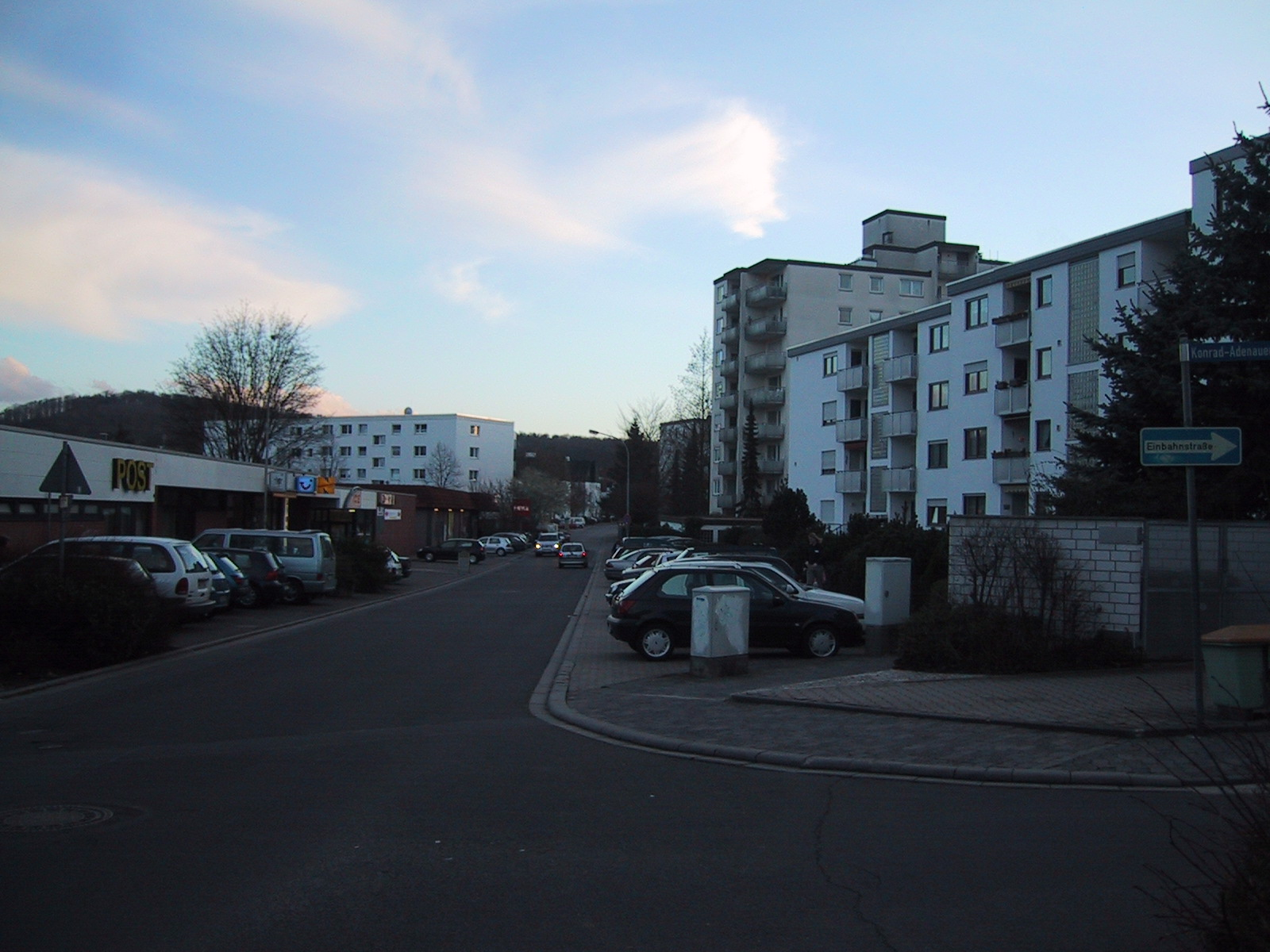 Picture of Eberstädter Straße in Nieder-Ramstadt, Mühltal, Hesse.